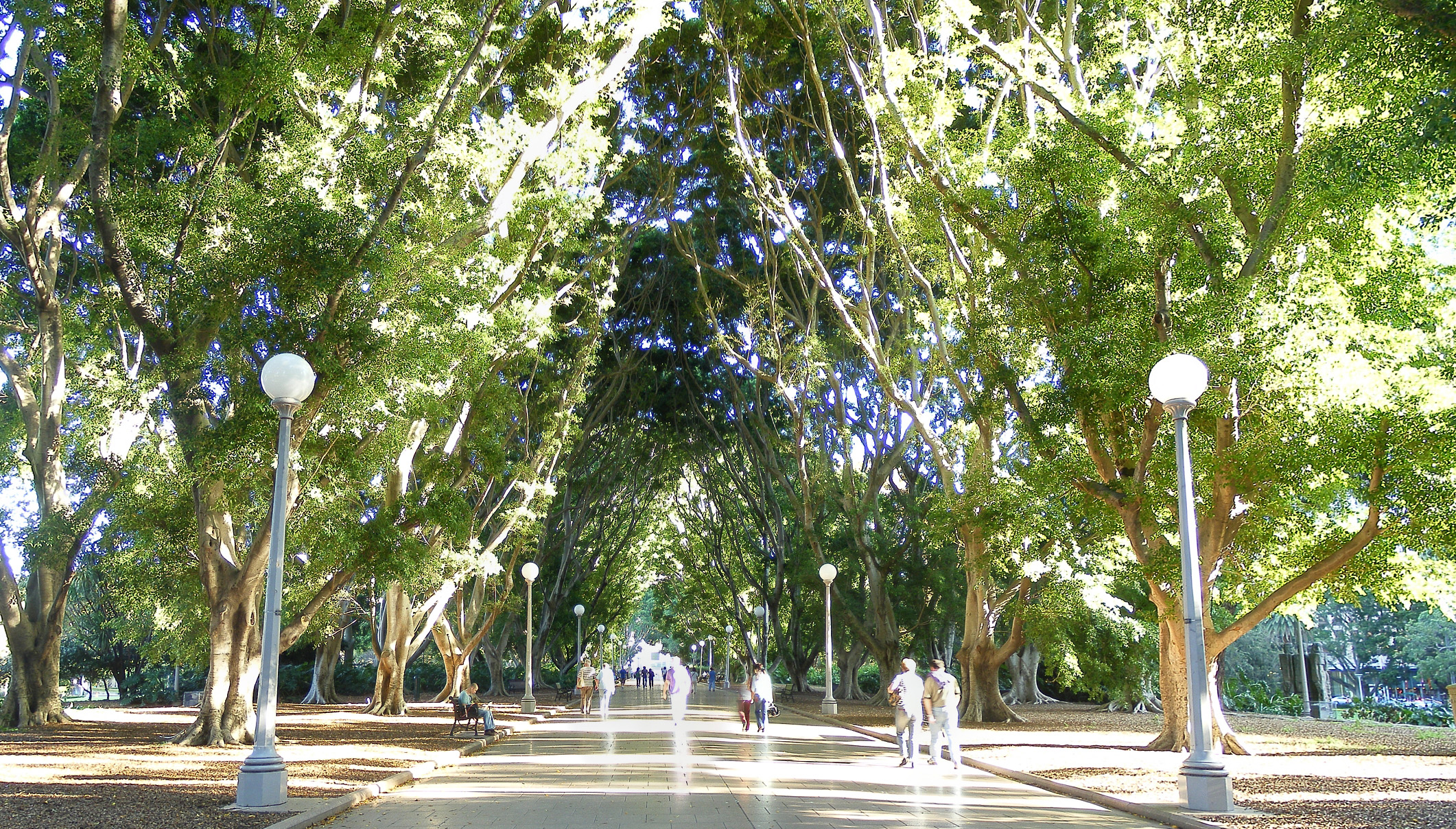 Hyde Park in Sydney